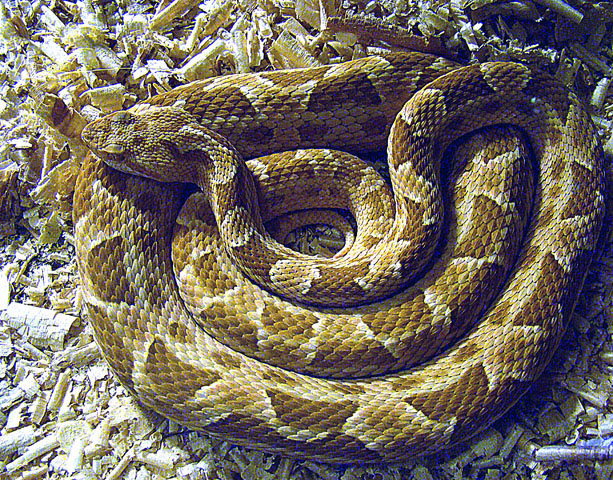 Light phase of the Crossed Viper, at the Centro Anaconda Serpentarium, Mendoza, Argentina.